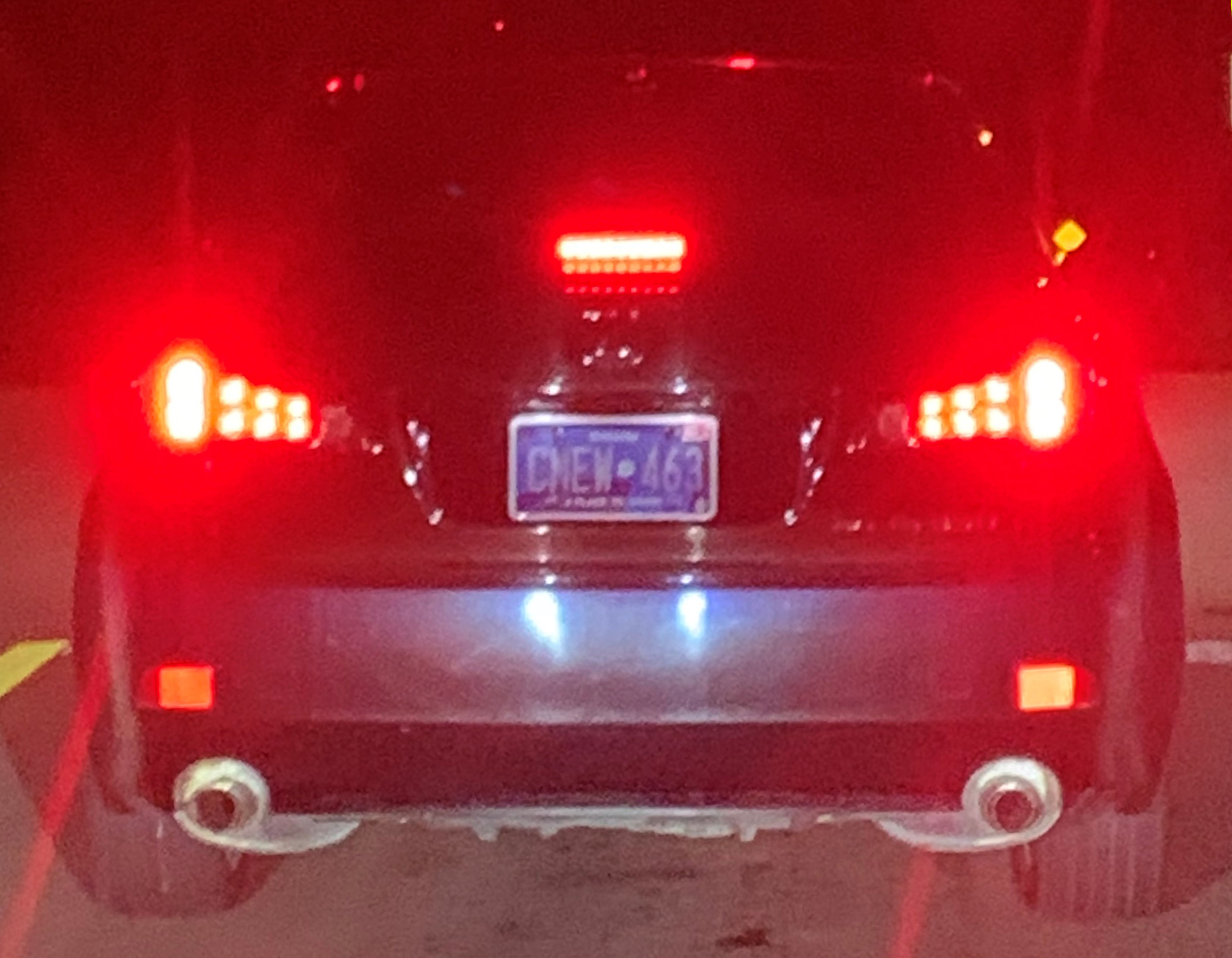 Defective Ontario plate which makes it difficult to read the lettering at night.